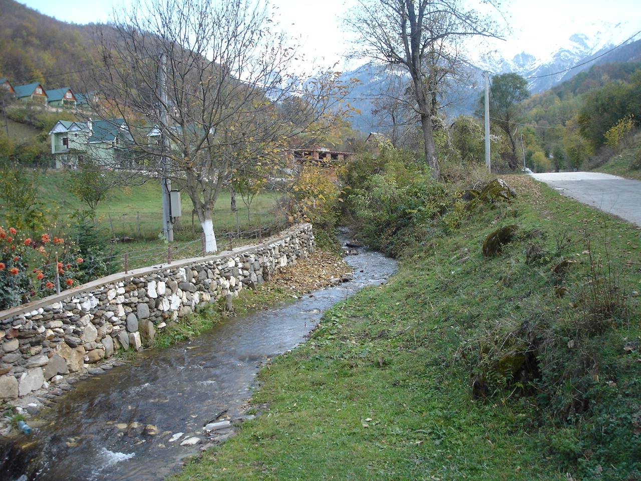 Patishka Reka river, Macedonia